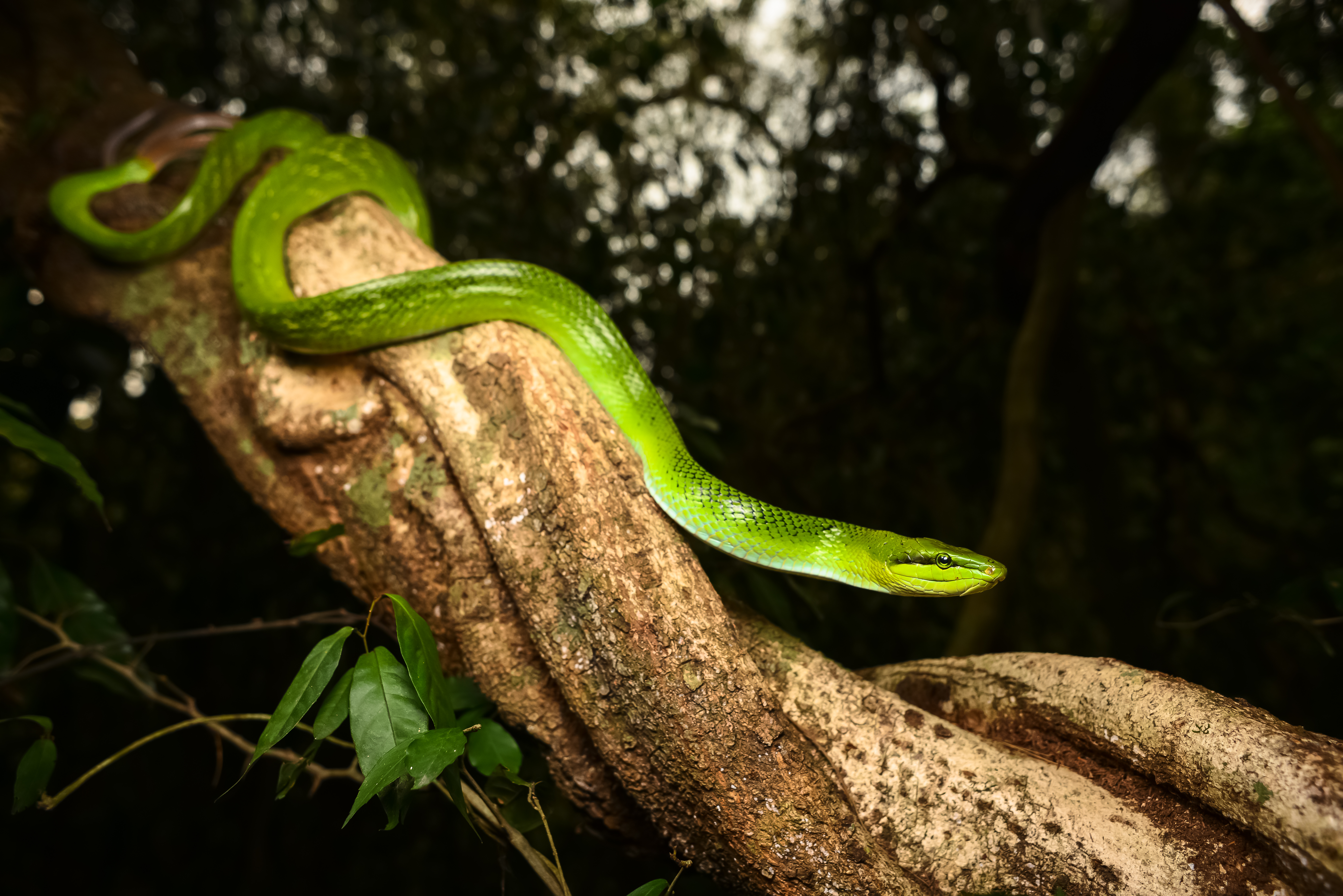 Gonyosoma oxycephalum, Red-tailed racer - Kaeng Krachan National Park. Photo by Thai National Parks